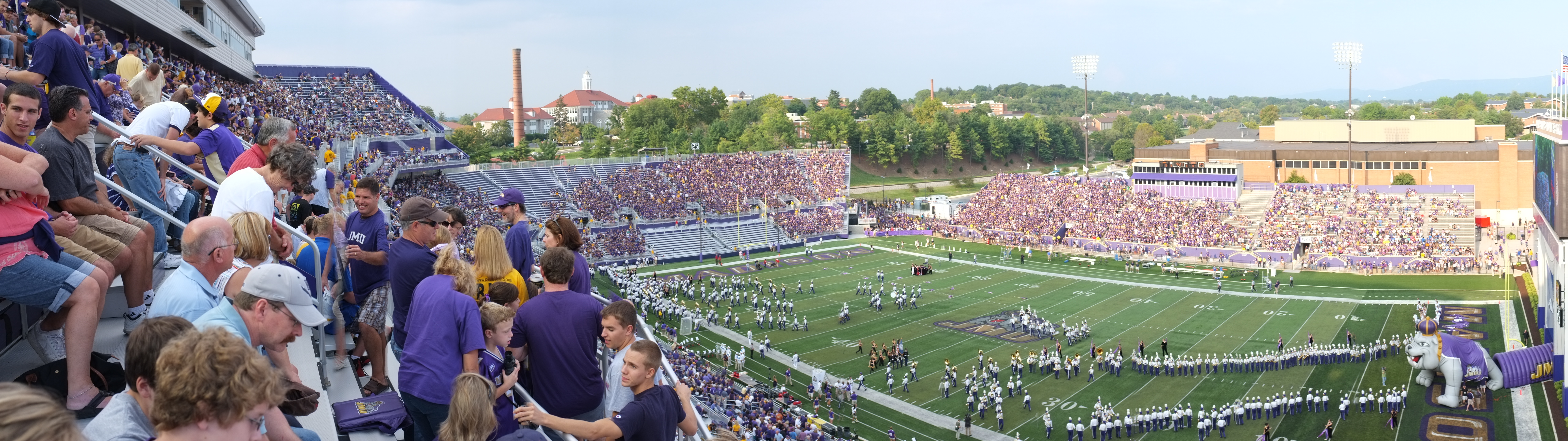 Panorama of Bridgeforth Stadium @ first game after expansion.